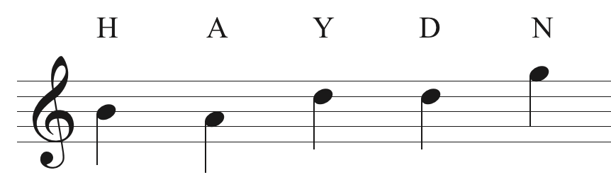 musical theme based on the letters of HAYDN